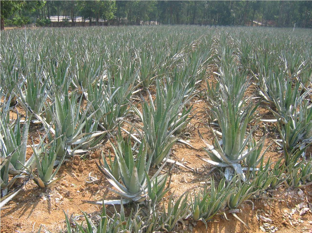 Aloe vera fields